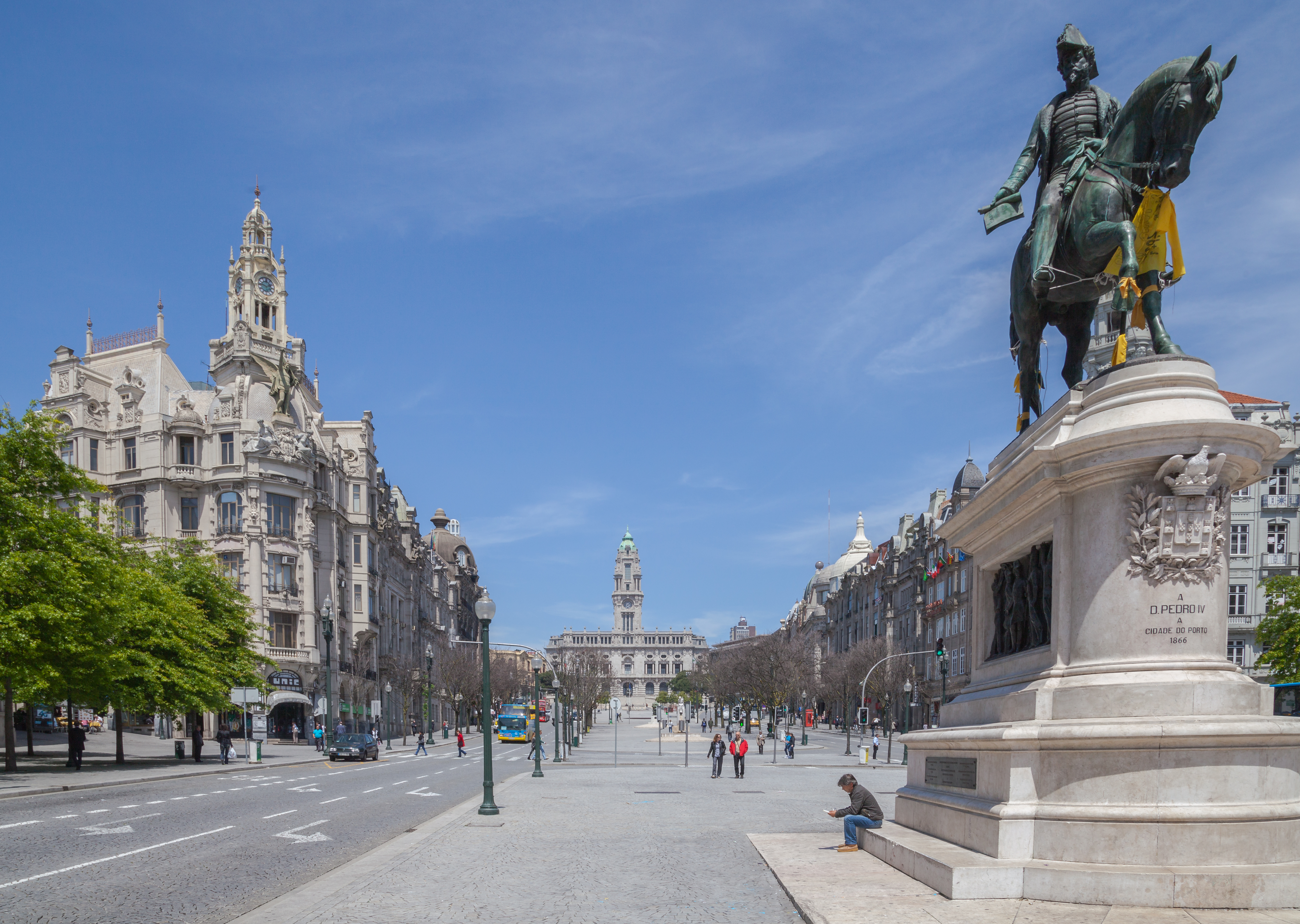 Praça da Liberdade, Porto, Portugal